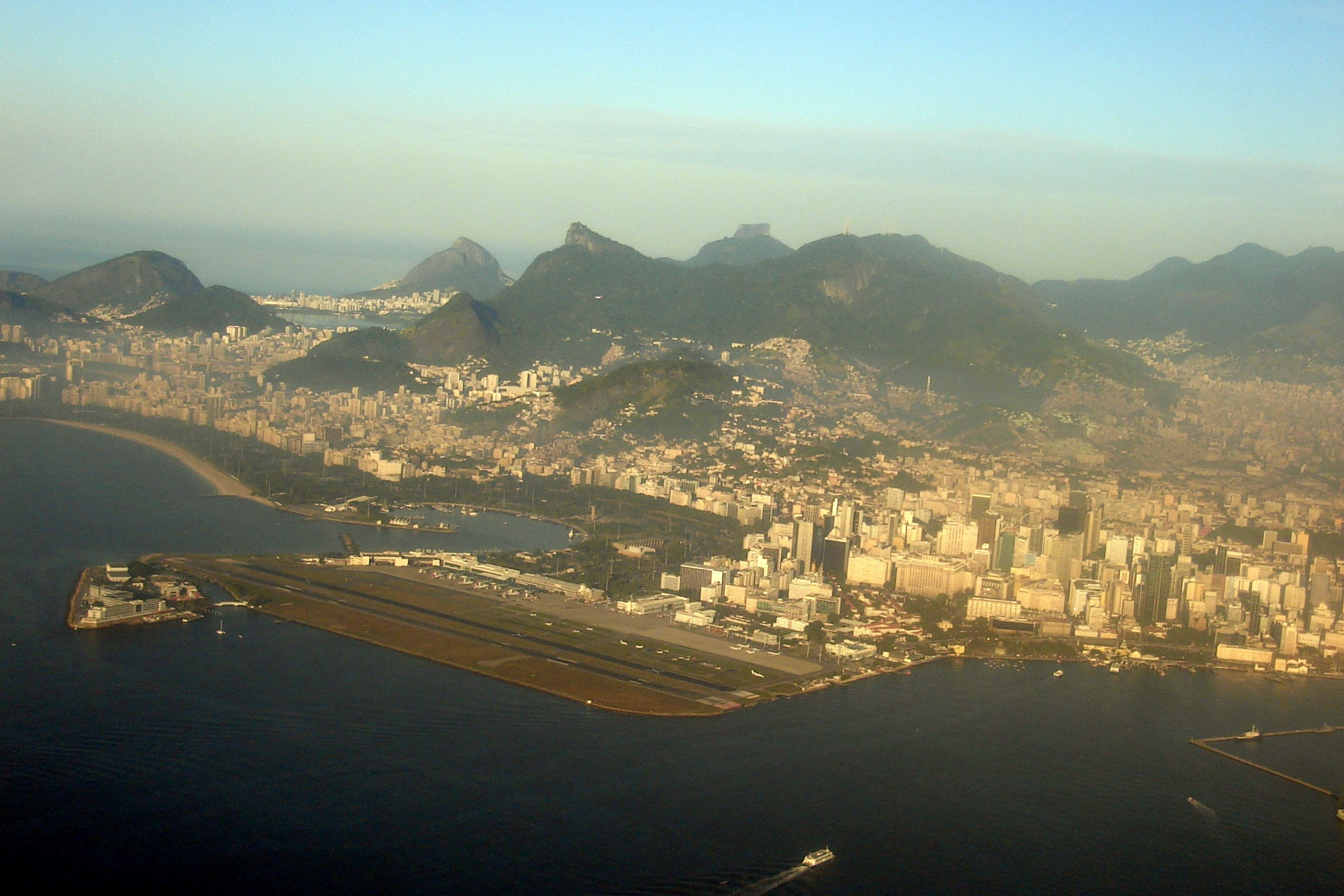 Aerial view of Santos Dumont Airport, Rio de Janeiro, Brazil